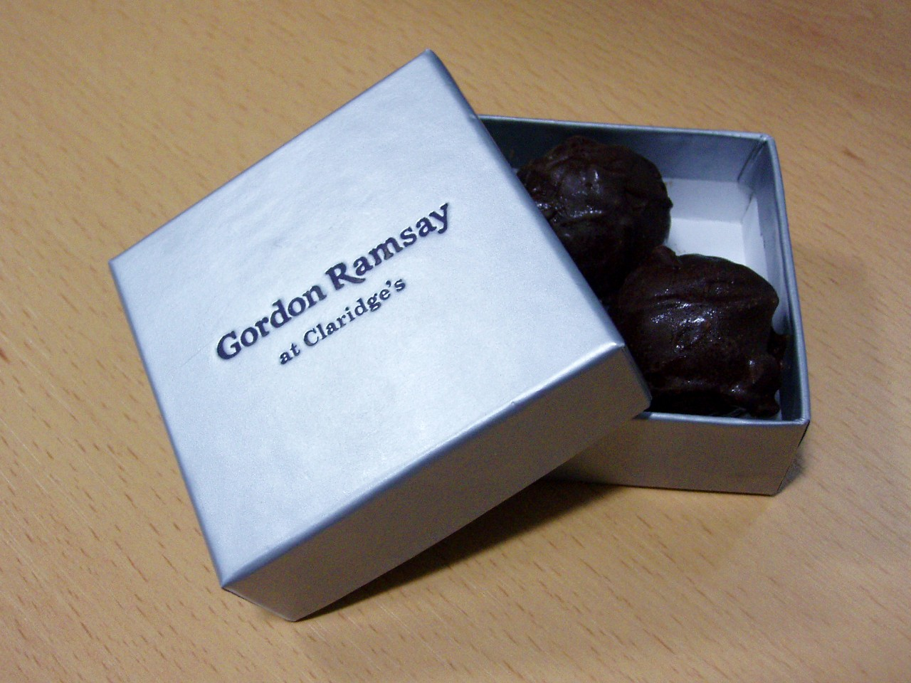 After our meal at Gordon Ramsay at Claridge's restaurant, we received a little presentation box with some more of the petit fours in it (the ginger chocolate balls). They were very nice there, great service. Food was pretty good too.